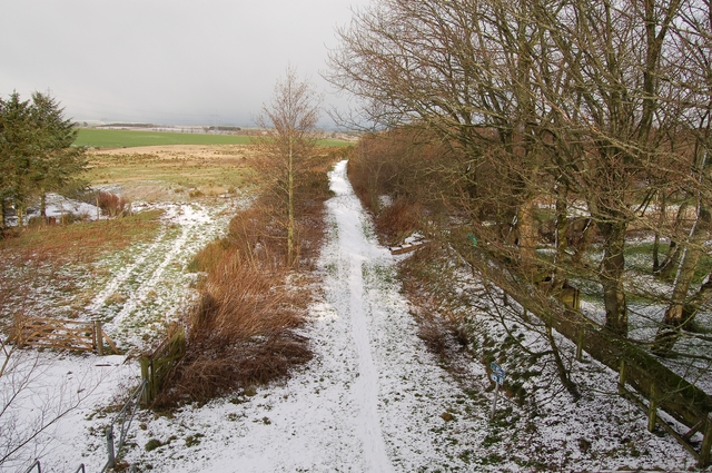 Udny Station looking along the Formatine and Buchan Way